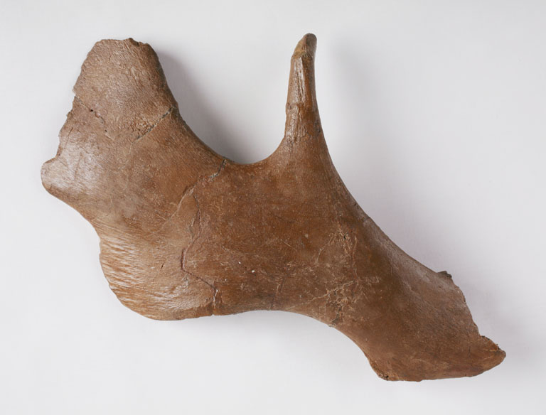 Isolated right jugal bone (Os jugale; lateral view) from the skull of the large duckbill dinosaur Edmontosaurus annectens from the Late Cretaceous (Maastrichtian, ~68 million years ago) of North America, in the permanent collection of The Children’s Museum of Indianapolis.